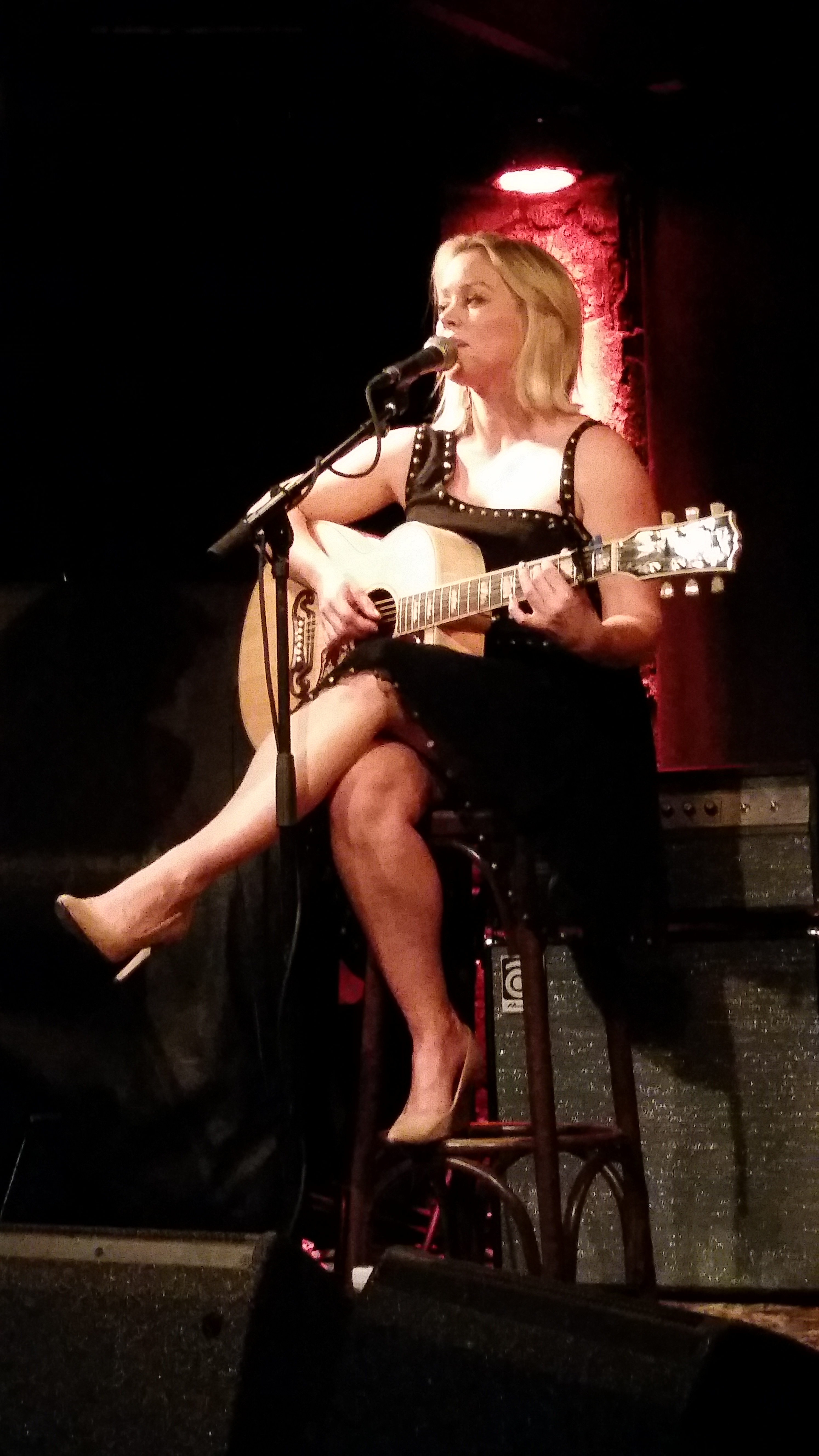 Singer songwriter